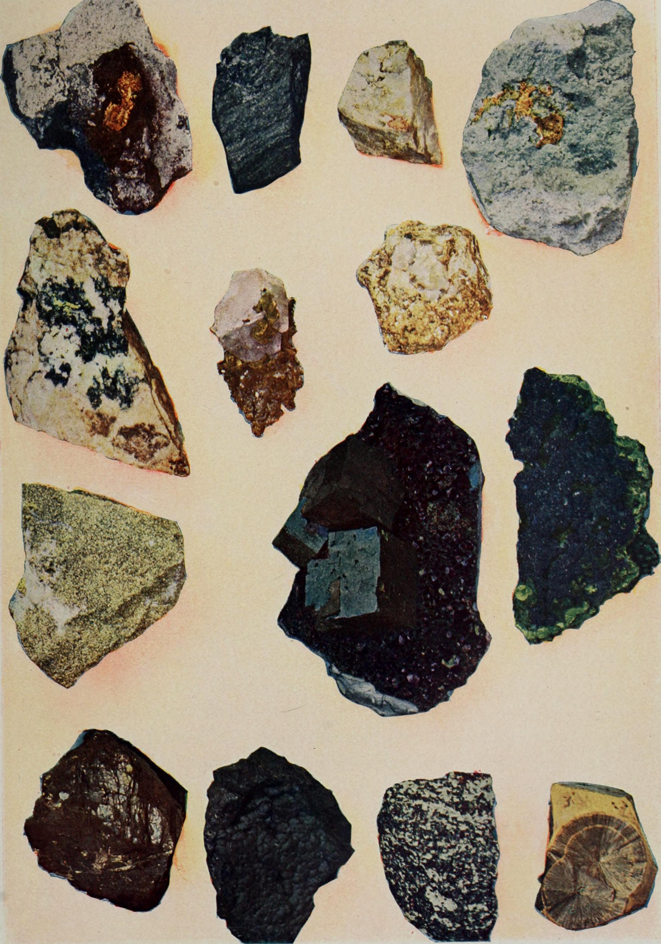 Title: Year: 1914 (1910s) Authors: Banta, Nathaniel Moore, 1867- Schneider, Albert, 1863- Higley, William Kerr, 1860-1908 Abbott, Gerard Alan Subjects: Natural history Publisher: Chicago, American Audobon association Text Appearing Before Image: 288 PyritesLimoniteHematite IRON ORES.Magnetite A. W. MUMFORD, CHICAGO PyritesLimoniteSpecular ^ ^ Text Appearing After Image: 26S Silver Quartz.Xirkel Pyrites.S;ialliic Iron Ore. ORES. .Specimens at top of page are gold bearing rock.Native Copper. Tin Ore. B. H. Lpaii Crystals.Kidiiey Iron Ore. Zinc Ore , BV A. W. MUUFCRO, CHictao. Kliie Carbonate Copi)er.Needle Iron Ore. ORES, MARBLES, ETC. 27 with those of magnetite. This ore is a valuable source ofiron. Hematite commonly occurs in earthy materials, asred ochre. Its streak is red. All rocks of a reddish or redcolor owe the color to this oxide of iron. When hematite rusts, the brownish-yellow or yellow ironoxide, Limonite, results. The streak of limonite is yellow,thus distinguishing it from hematite. Disseminated throughbeds of clay, hmonite gives them the characteristic yellowcolor. Such clays turn red when heated, since the water ofthe limonite is driven off, leaving hematite as a residue.This is the explanation of the usual coloring of bricks.Yellow ochre is impure, or earthy, hmonite. ORES * Nickel is a silver-white, ductile metal discovered byCronsted